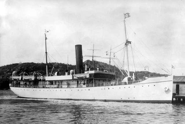 Norwegian steamship SS Galtesund, built in 1905. She was owned by Arendals Dampskibsselskab (Arendal steamship company) and served as a coastal steamer in southern Norway. During world war 2, she made a daring escape to Scotland from German-occupied Norway